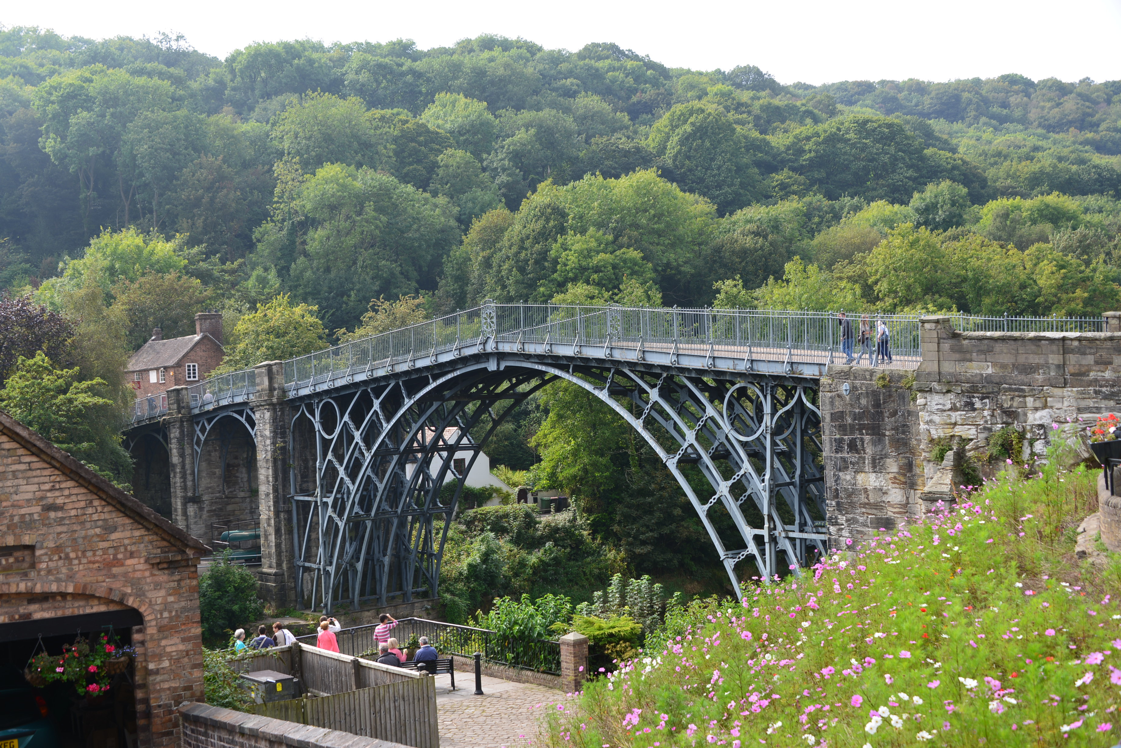 The Iron Bridge in Ironbridge Gorge, the first iron arch bridge in the world.